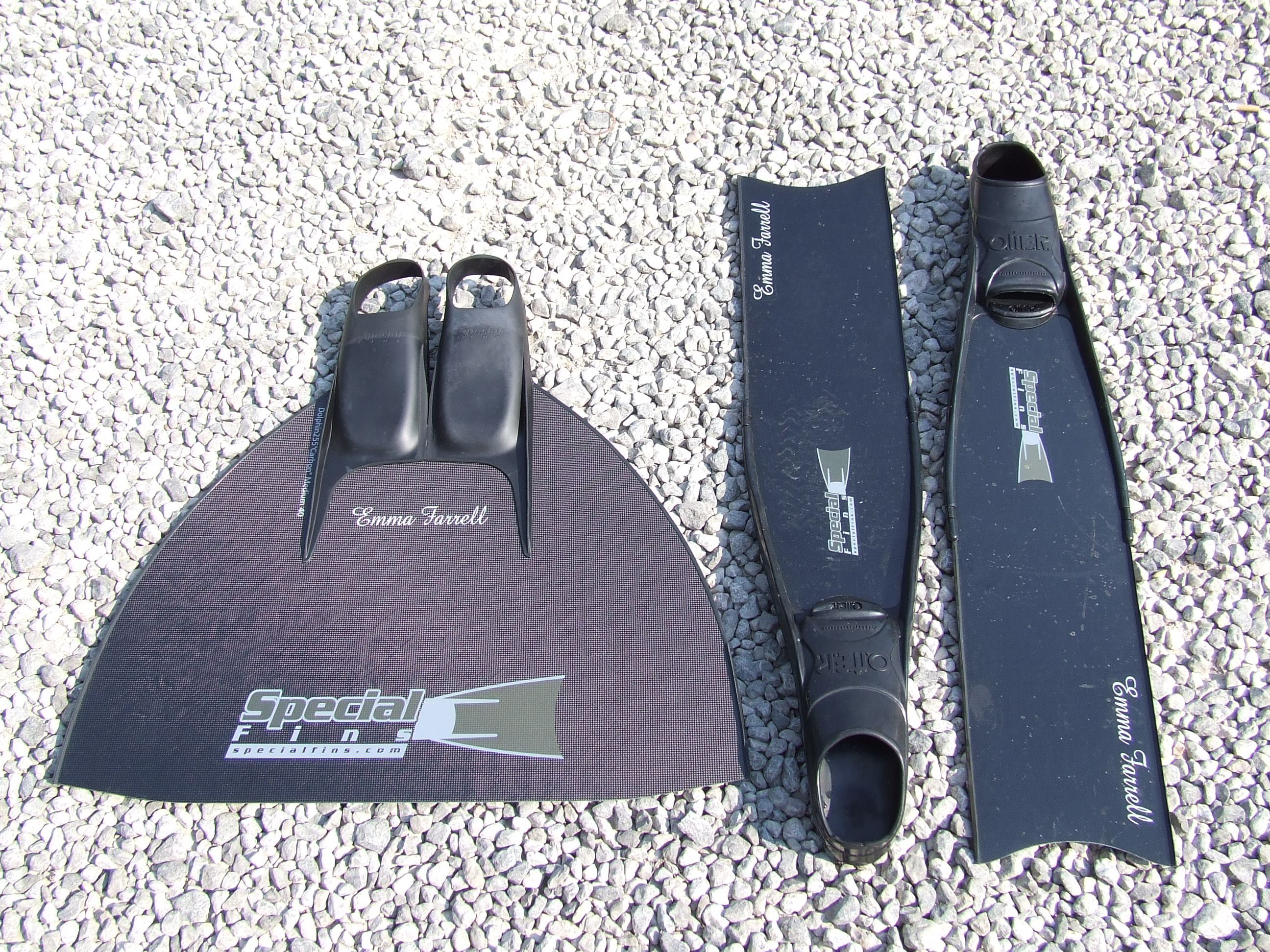 Monofin & Bi-fins (swimming, finswimming, freediving, apnea, spearfishing, carbon, rubber)